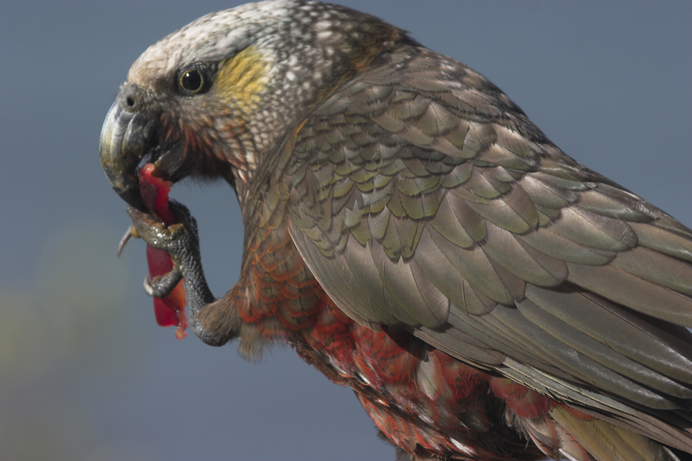 Nestor meridionalis meridionalis, South Island Kākā, on Stewart Island, New Zealand